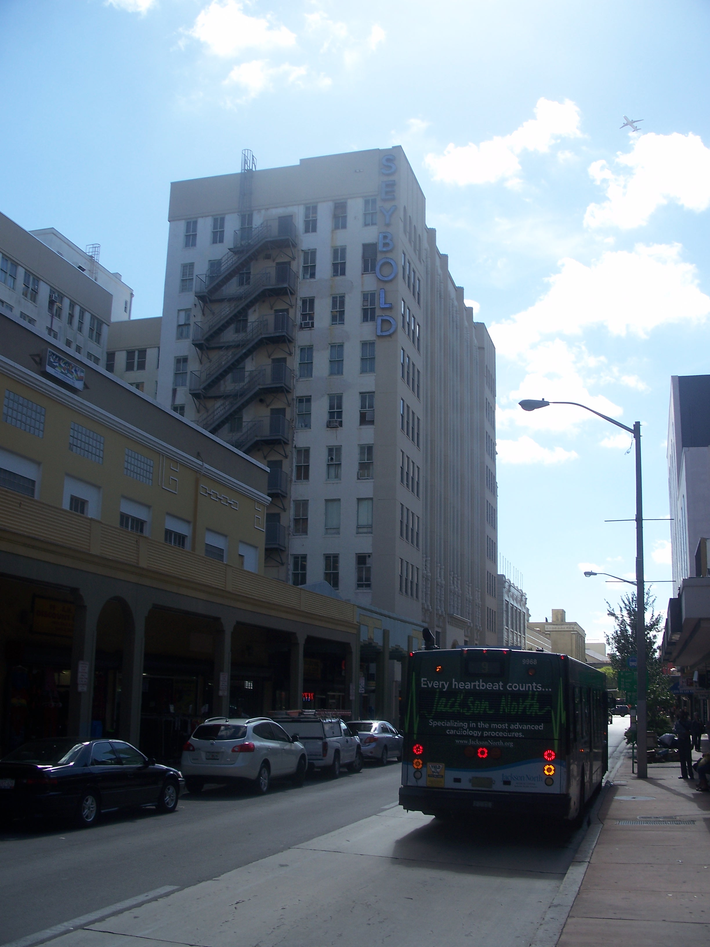 Miami, Florida: Downtown Miami Historic District: Seybold building